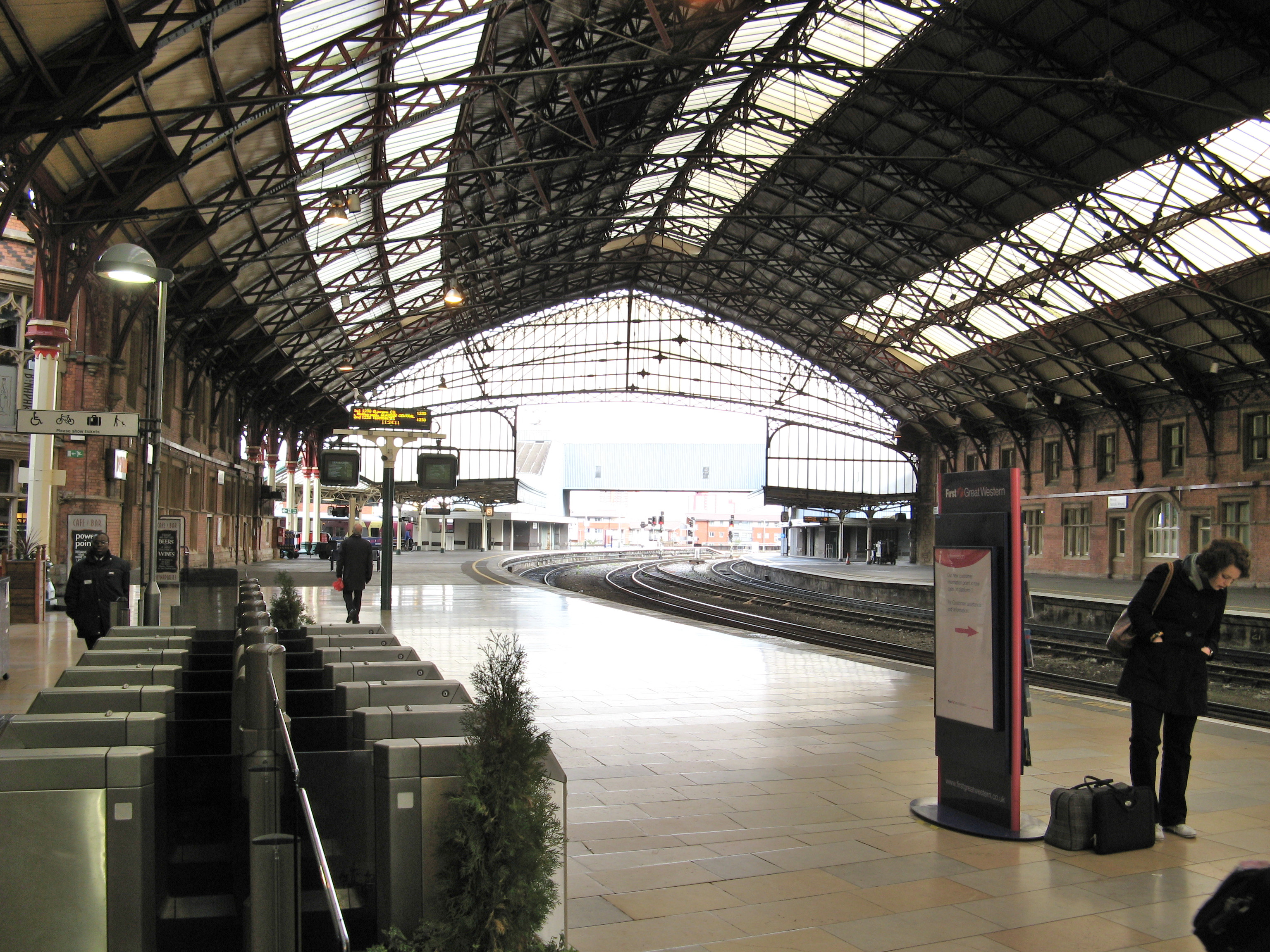 Bristol Temple Meads railway station automatic ticket gates and platform 3.